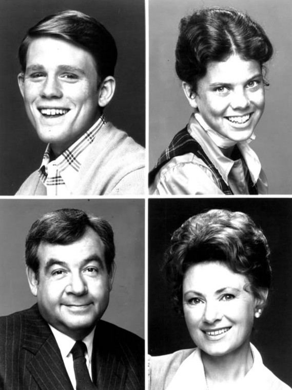 Photo of the Cunningham family from the television program Happy Days. Top,from left: Ron Howard (Richie Cunningham), Erin Moran (Joanie Cunningham). Bottom, from left: Tom Bosley (Howard Cunningham), Marion Ross (Marion Cunningham).